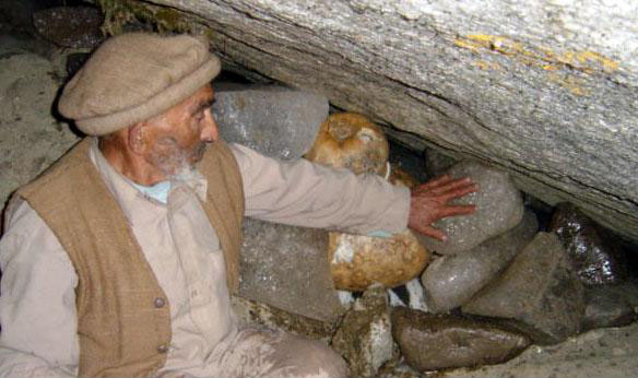 Glacier growing, glacier grafting, artificial glacier – Ghulam of Gilgit grafting a glacier.